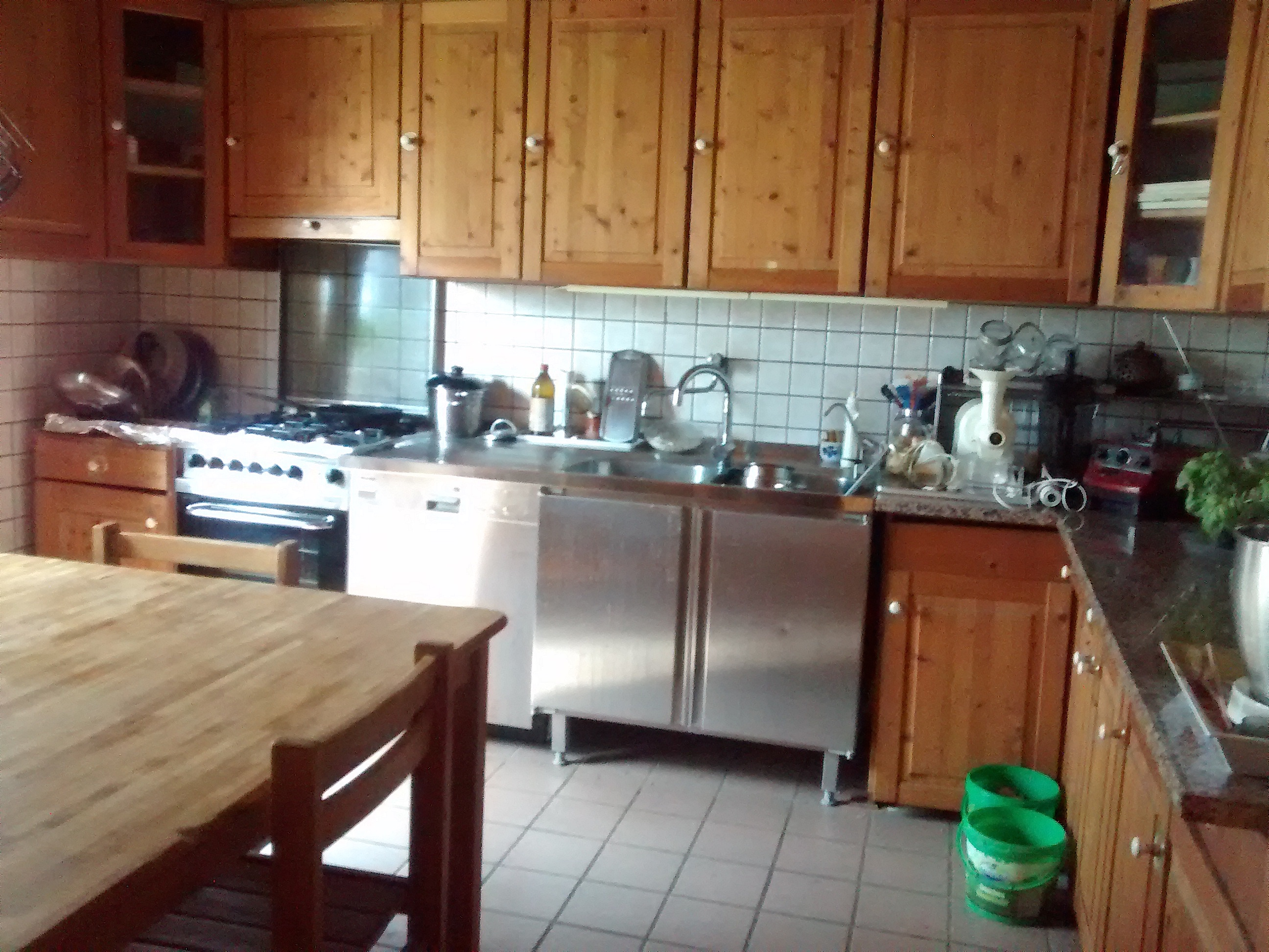 Traditional Style